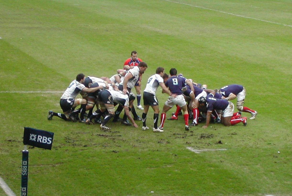 Scrum between France and Scotland during the match Scotland-France, at Murrayfield, as part of the Six nations championship 2010.